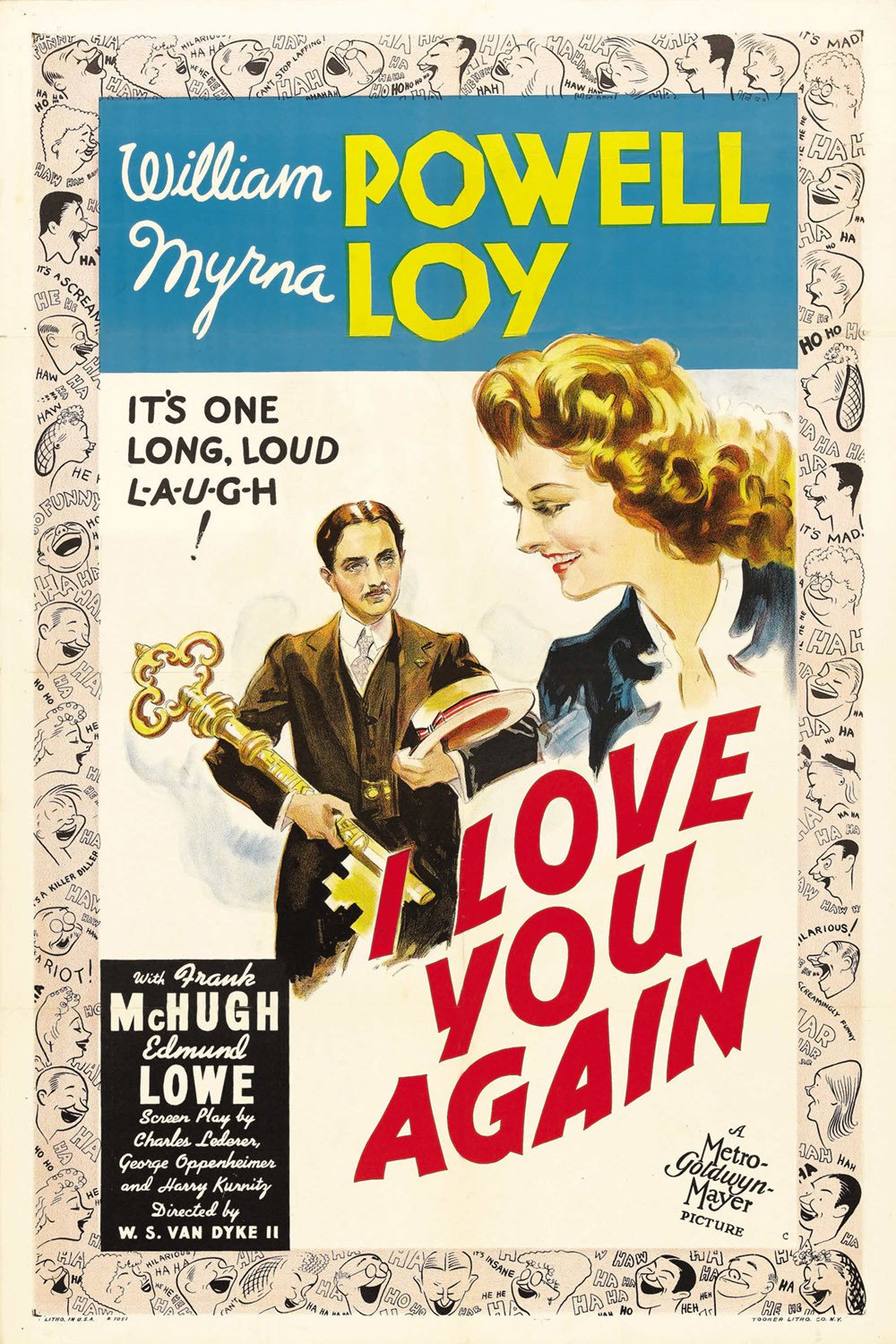 Poster for the 1940 film I Love You Again. The item has no copyright markings on it as can be seen in the links above. At bottom left is Litho in USA, #5051 which probably pertains to the printing of the poster. At bottom right is Tooker Litho Co. NY-they printed the poster.